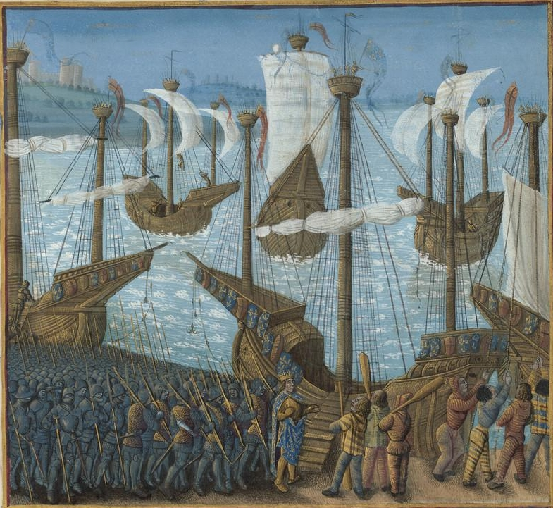 Miniature: Departure on Third Crusade